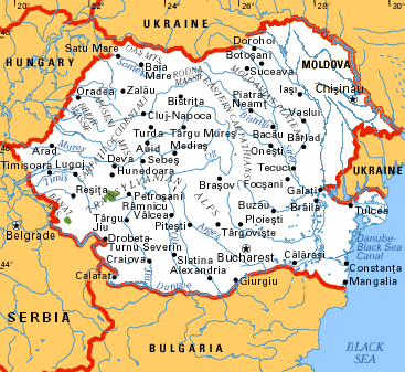 belkovski proposal